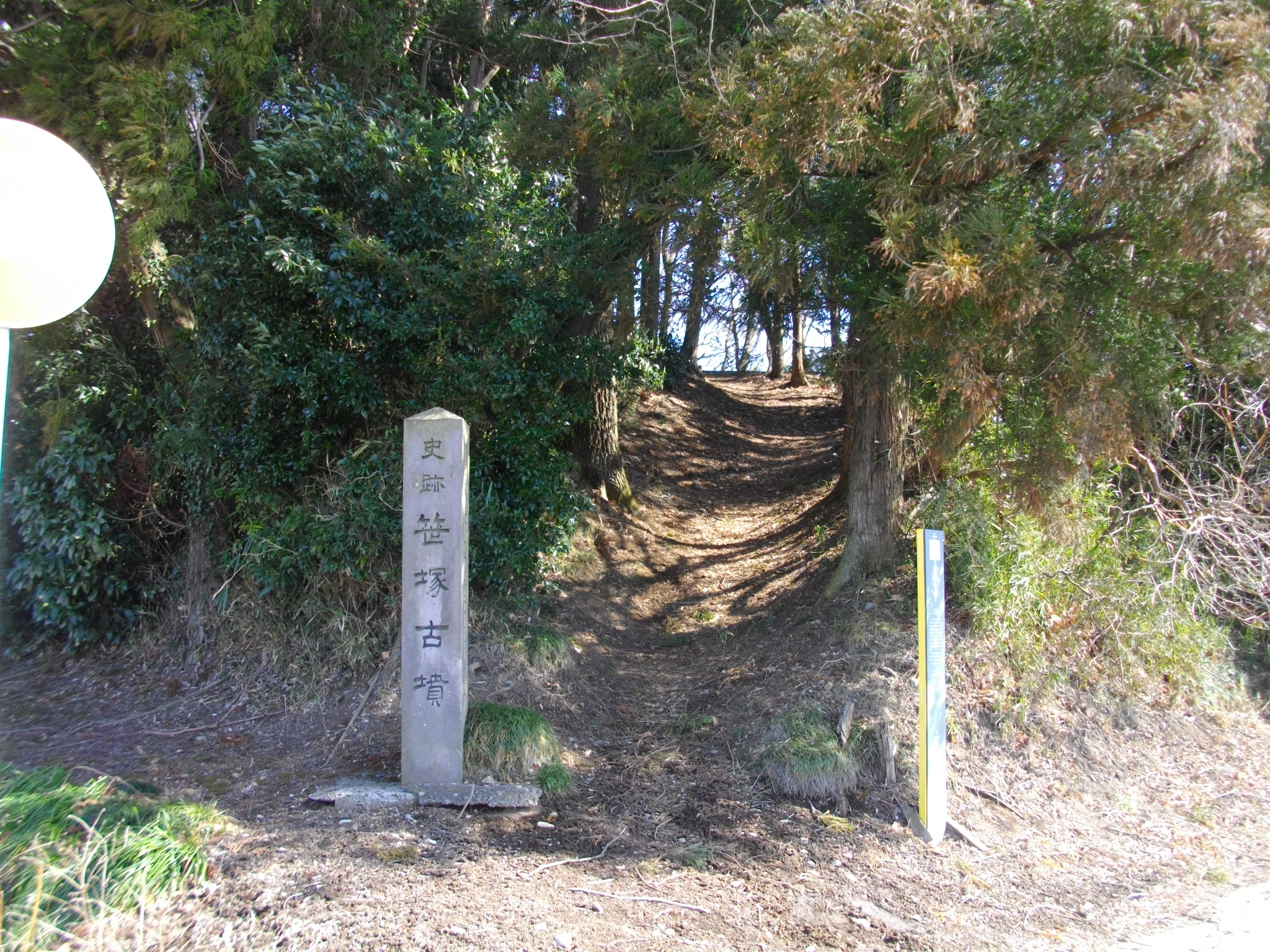 Sasazuka Kofun